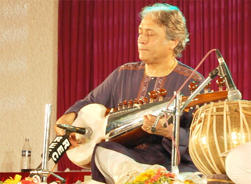 Amjad Ali Khan in Kochi